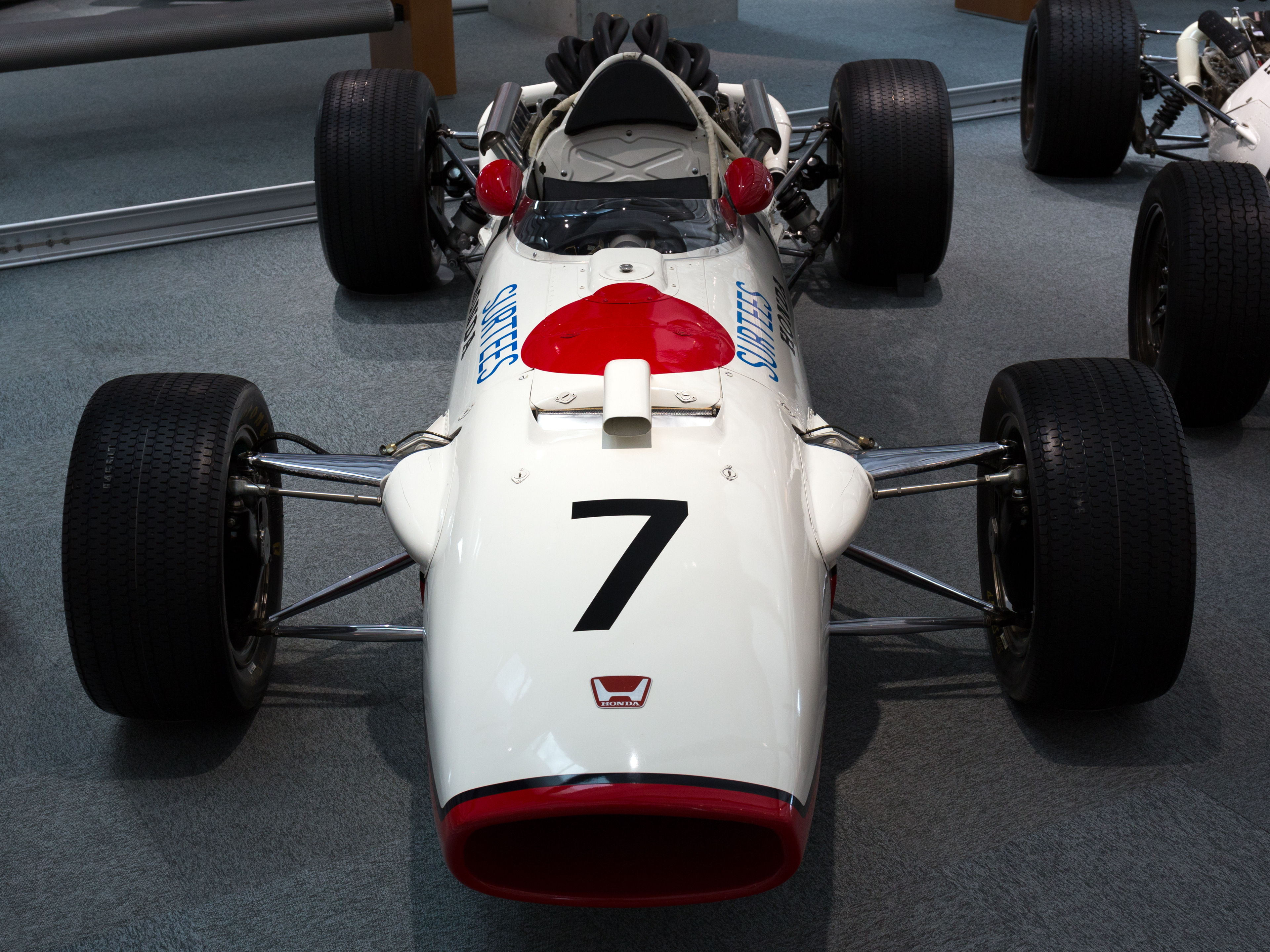 1967 Honda RA273 of John Surtees